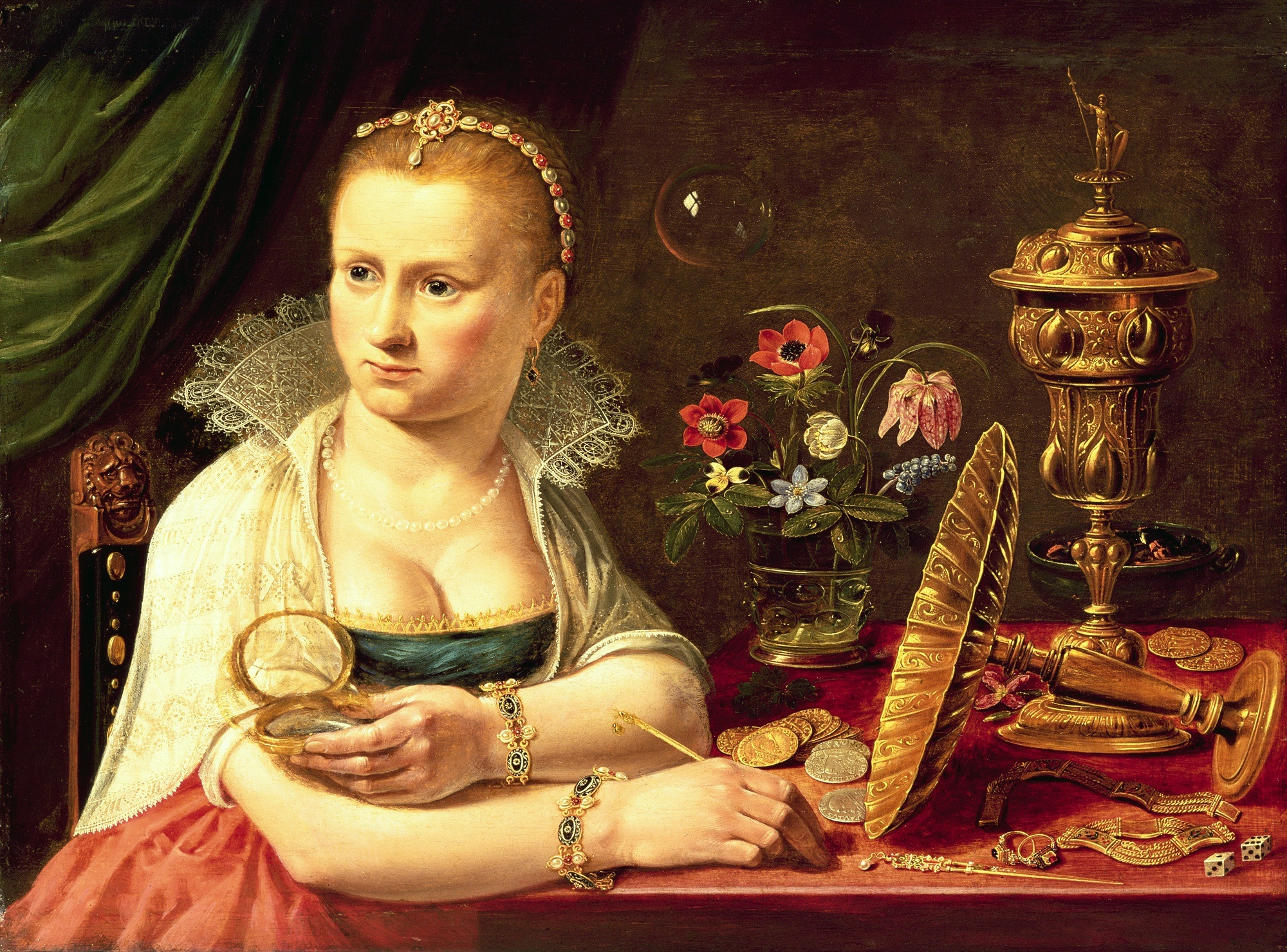 Vanitas painting; it is plausible that the woman in the painting is Clara Peeters. More in general this is to be considered a Personification or Allegory of Vanitas